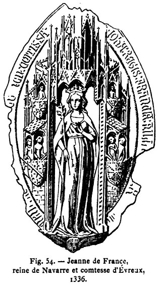 Joan II of Navarre